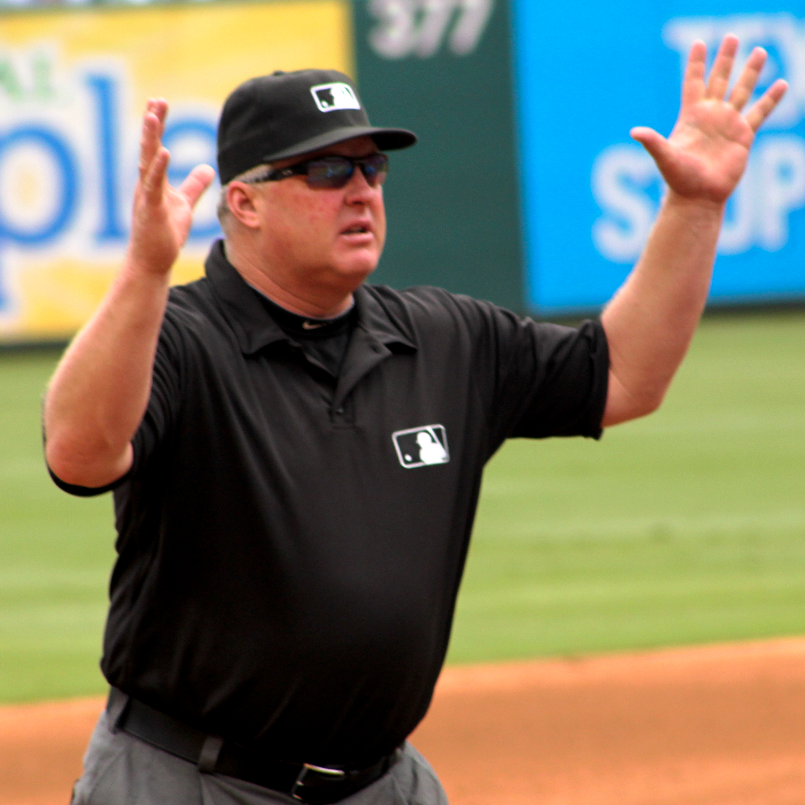 Professional baseball umpire Bill Miller gives the hand signal for a foul ball during a 2014 game in Texas.